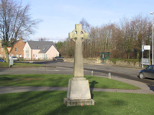 The war memorial at Newtown St Boswells, Scottish Borders, Scotland. Opposite the Scottish Borders Regional Council Headquarters building.